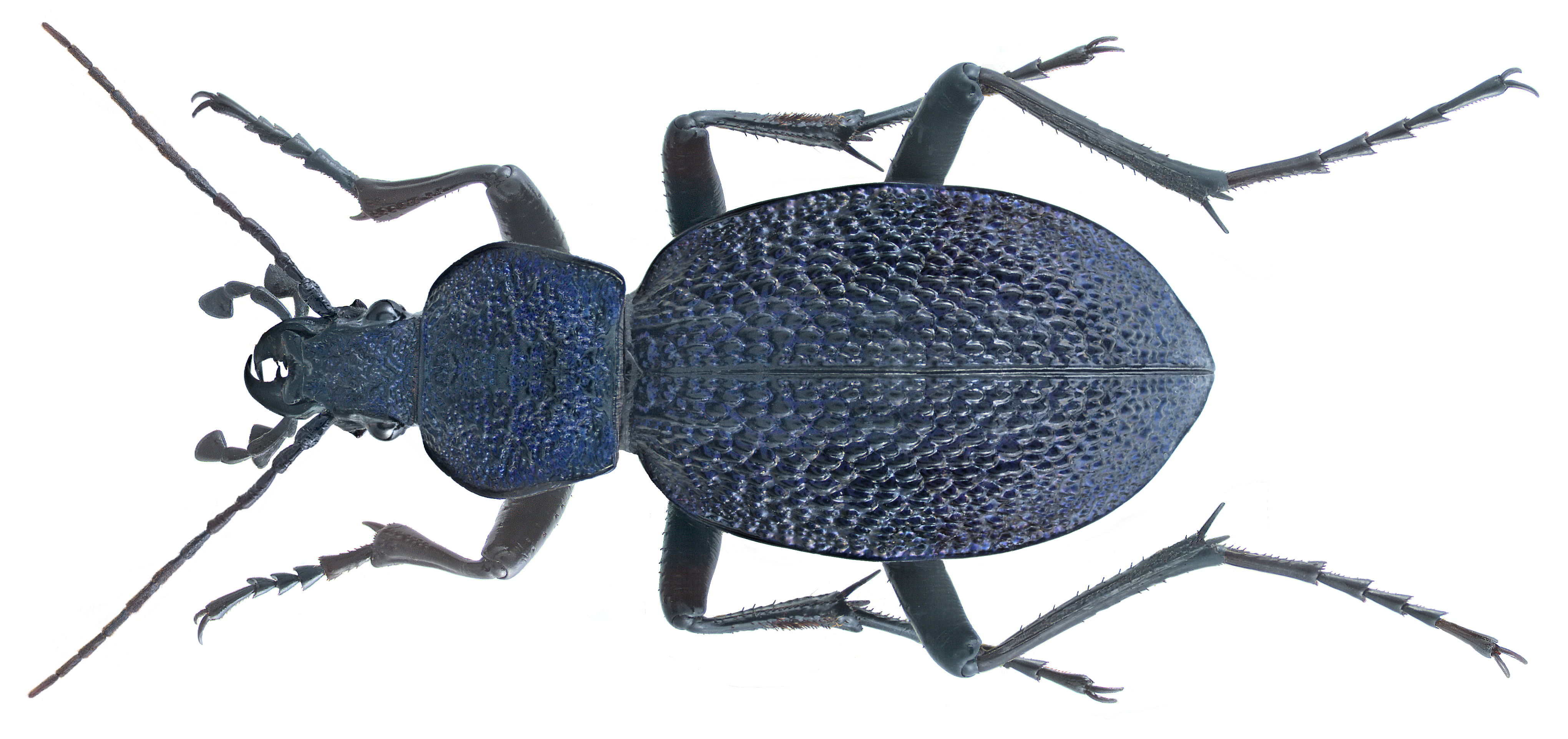 Family: Carabidae Size: 40 mm Distribution endemic to Crimea Location: Crimea, Sevastopol leg.det. A.Chuvilin, 12.VIII.1999 Photo: U.Schmidt, 2016